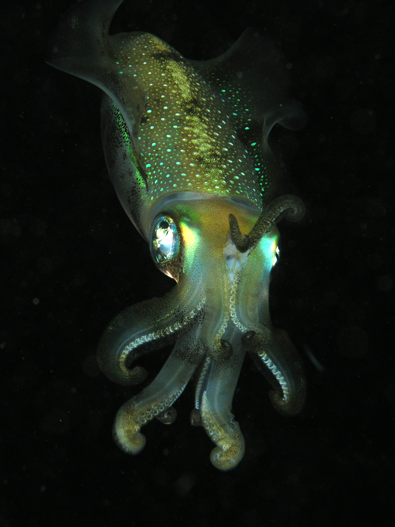 Friendly squid visit at night in Komodo National Park. Probably Sepioteuthis lessoniana.